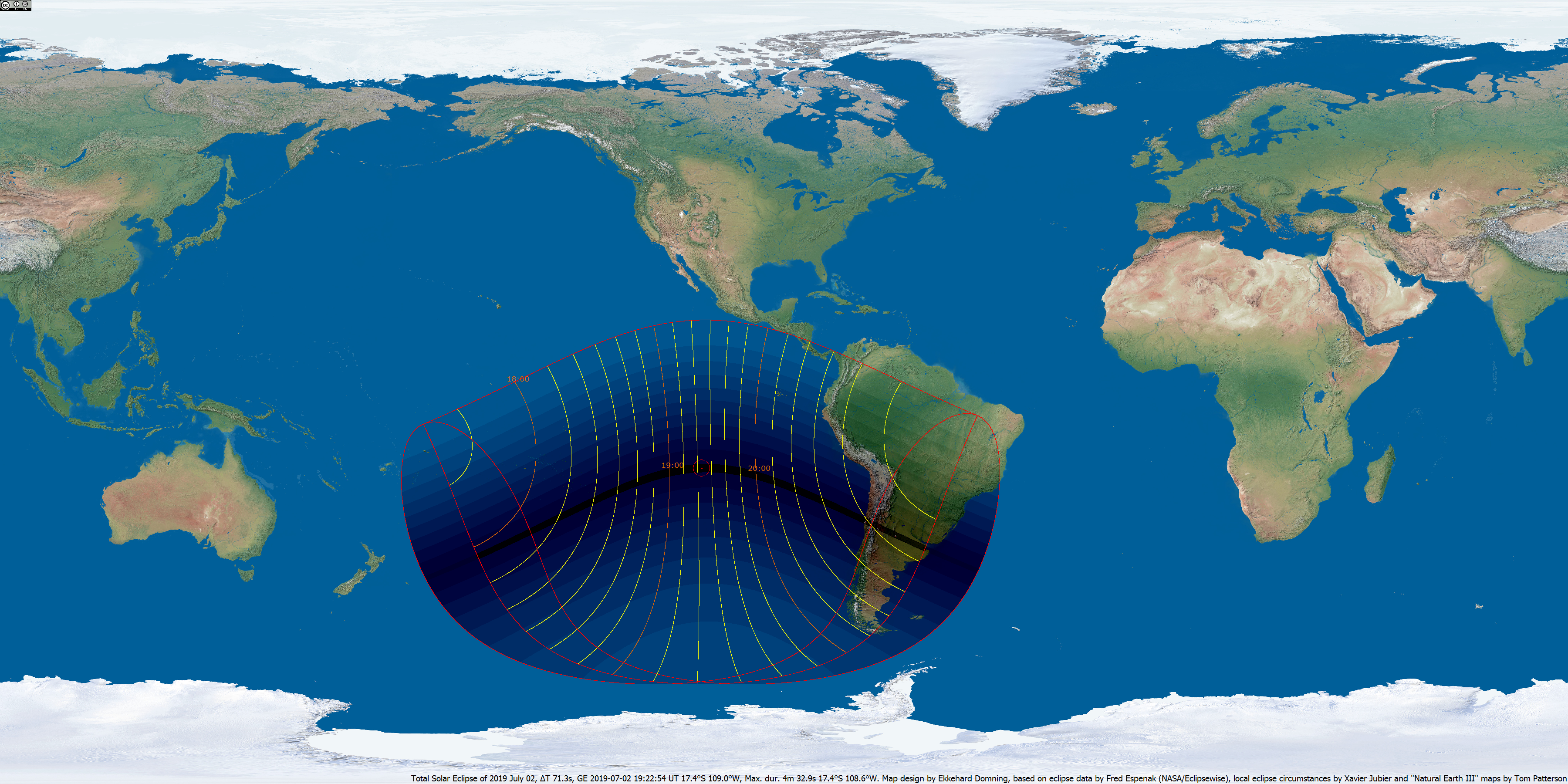 Global map of the Solar eclipse Scale 1° = 10px